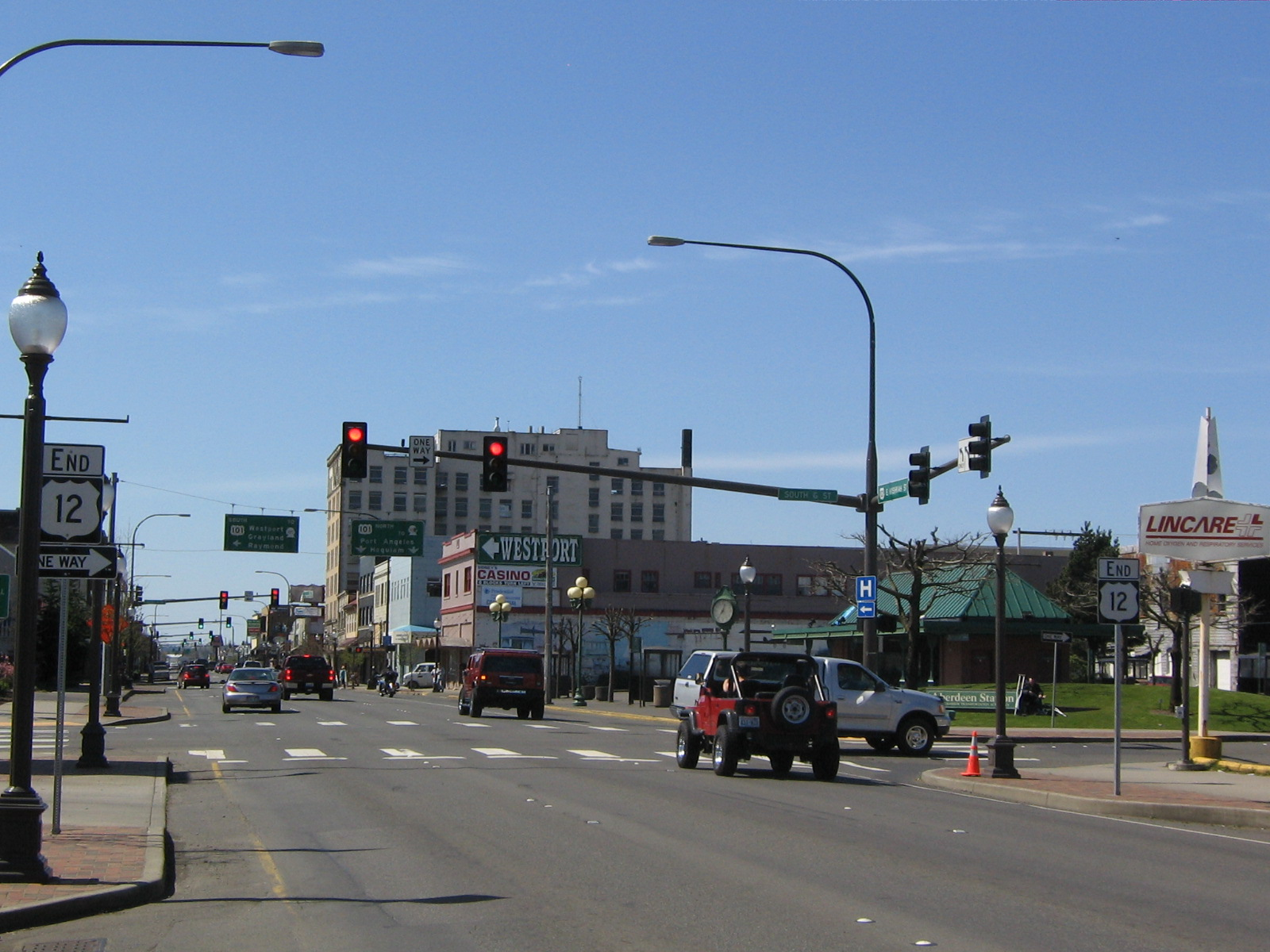 U.S. Route 12 approaching its terminus in downtown Aberdeen